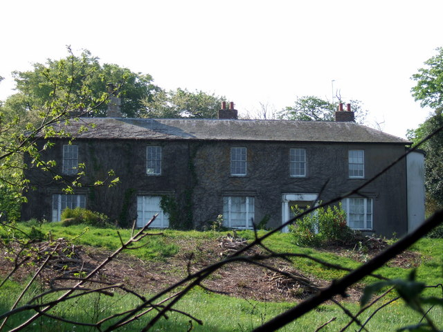 Manorowen House Modest mansion rebuilt in the 1820's and again in the C19, replacing an earlier one which was once home to country squire, magistrate and antiquary, John Lewis, great-grandfather to the historian Richard Fenton, who, writing in 1810, recalled the abundance of his table and his cellar: "As he farmed his demesne, and produced his own grain, he could vouch for his malt, and piqued himself on having the native and staple liquor of the country in a perfection that made it proverbial, and for which that house long continued to maintain a reputation."